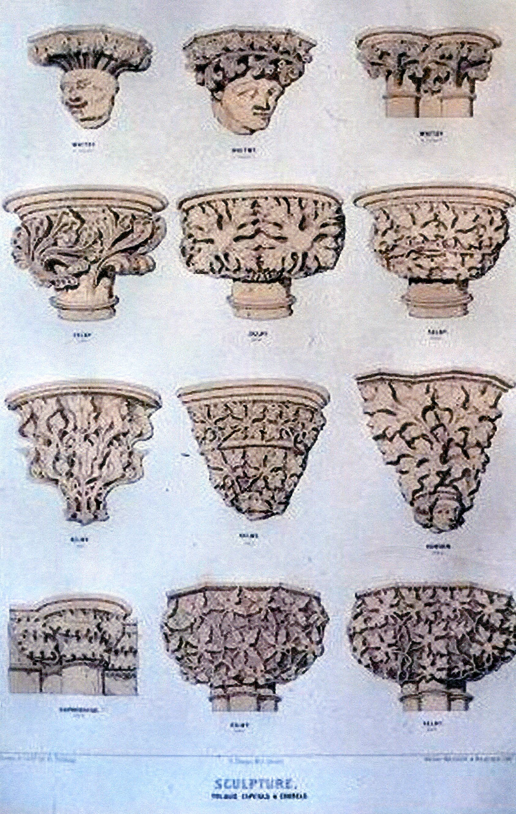 A page from Architectural Parallels by Edmund Sharpe